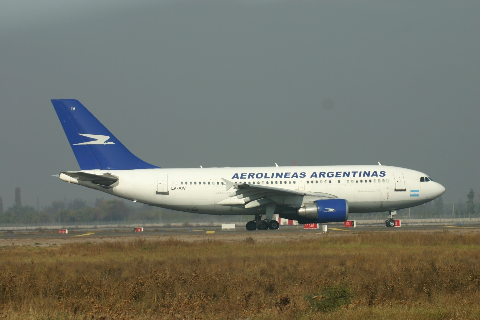 At Santiago